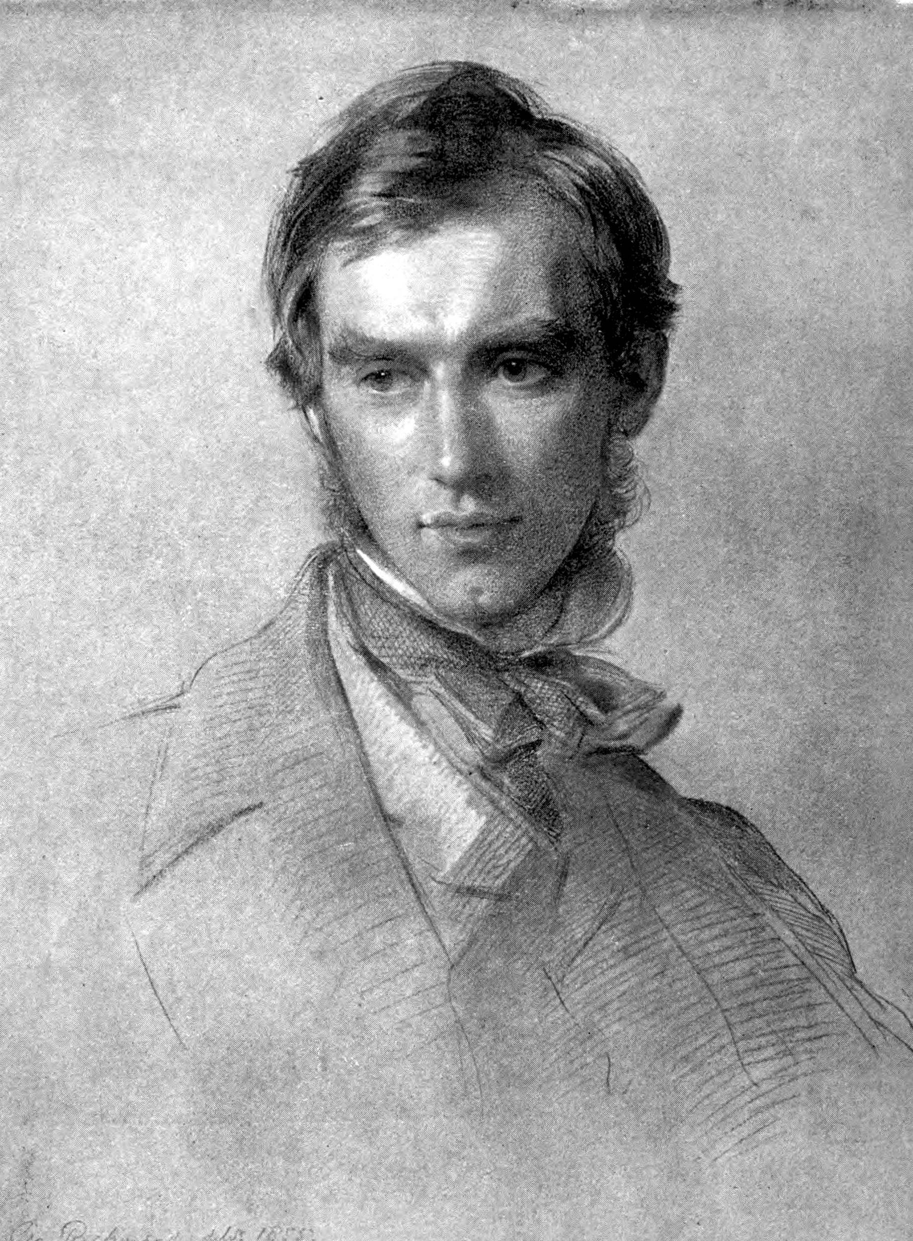 Joseph Dalton Hooker by George Richmond (1855)